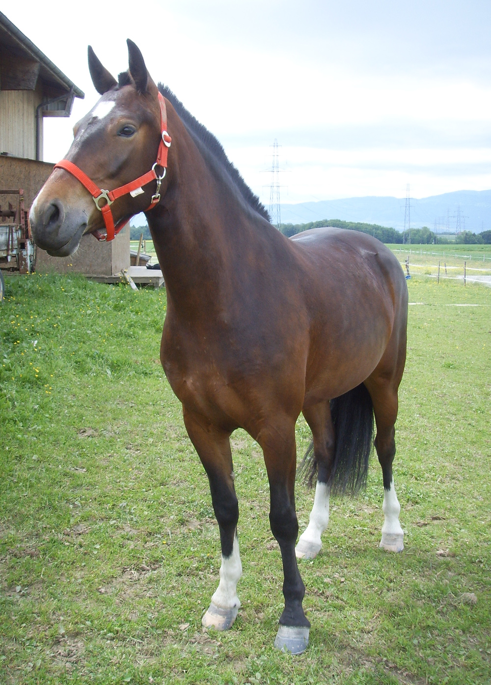 Divine, 3 years old horse of the Franches-Montagnes breed (native breed from Switzerland)